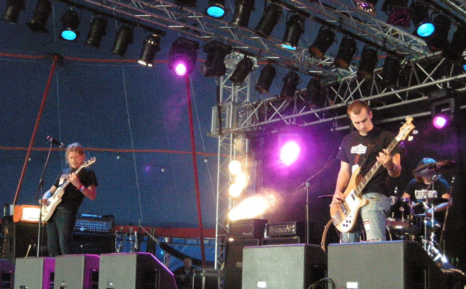 Swedish metal group Kongh at Metaltown 2009